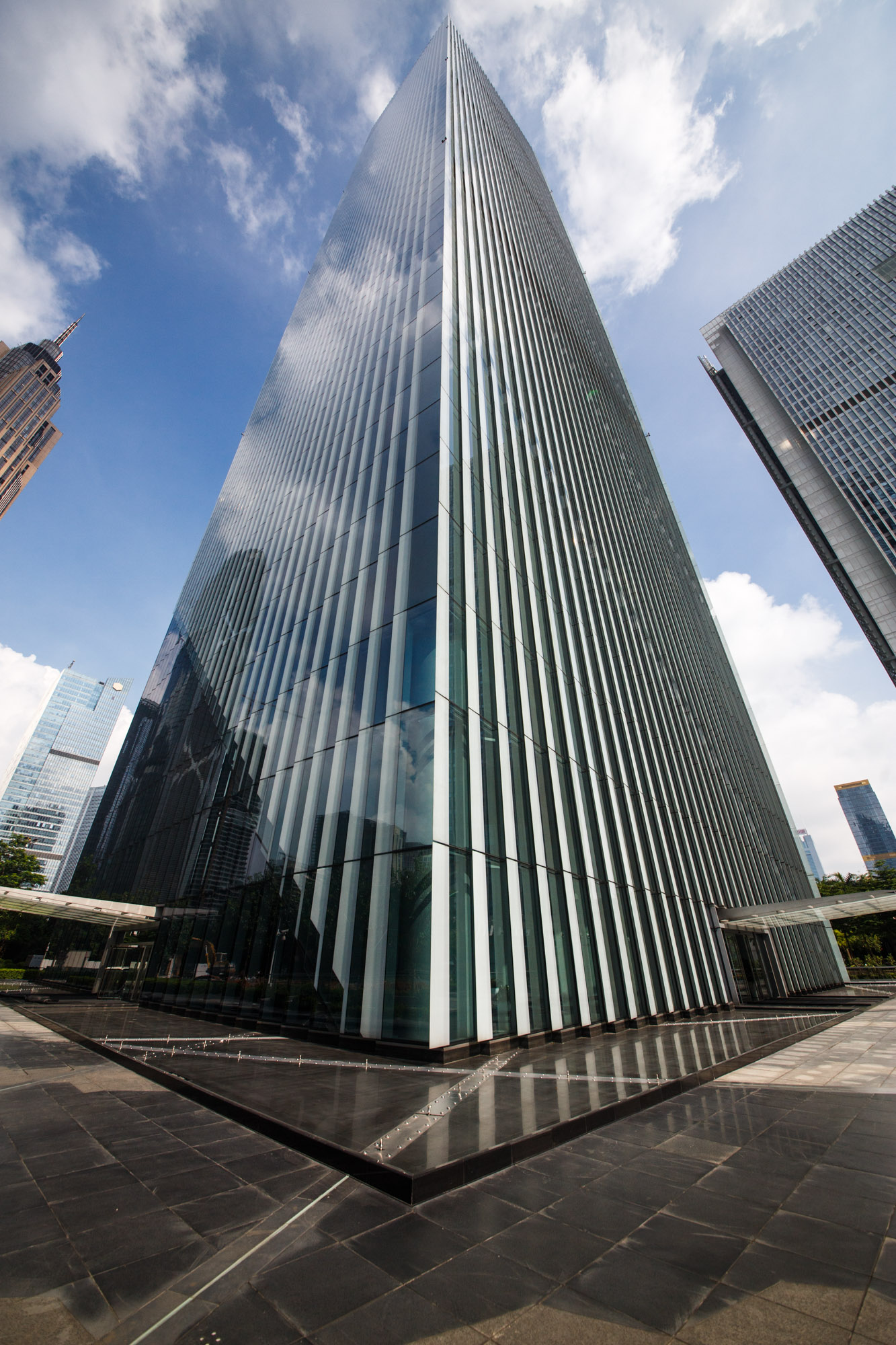 Guangzhou Leatop Plaza